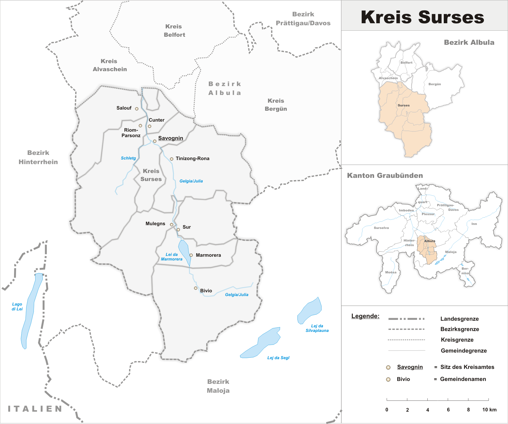 Municipalities in the circle of Surses